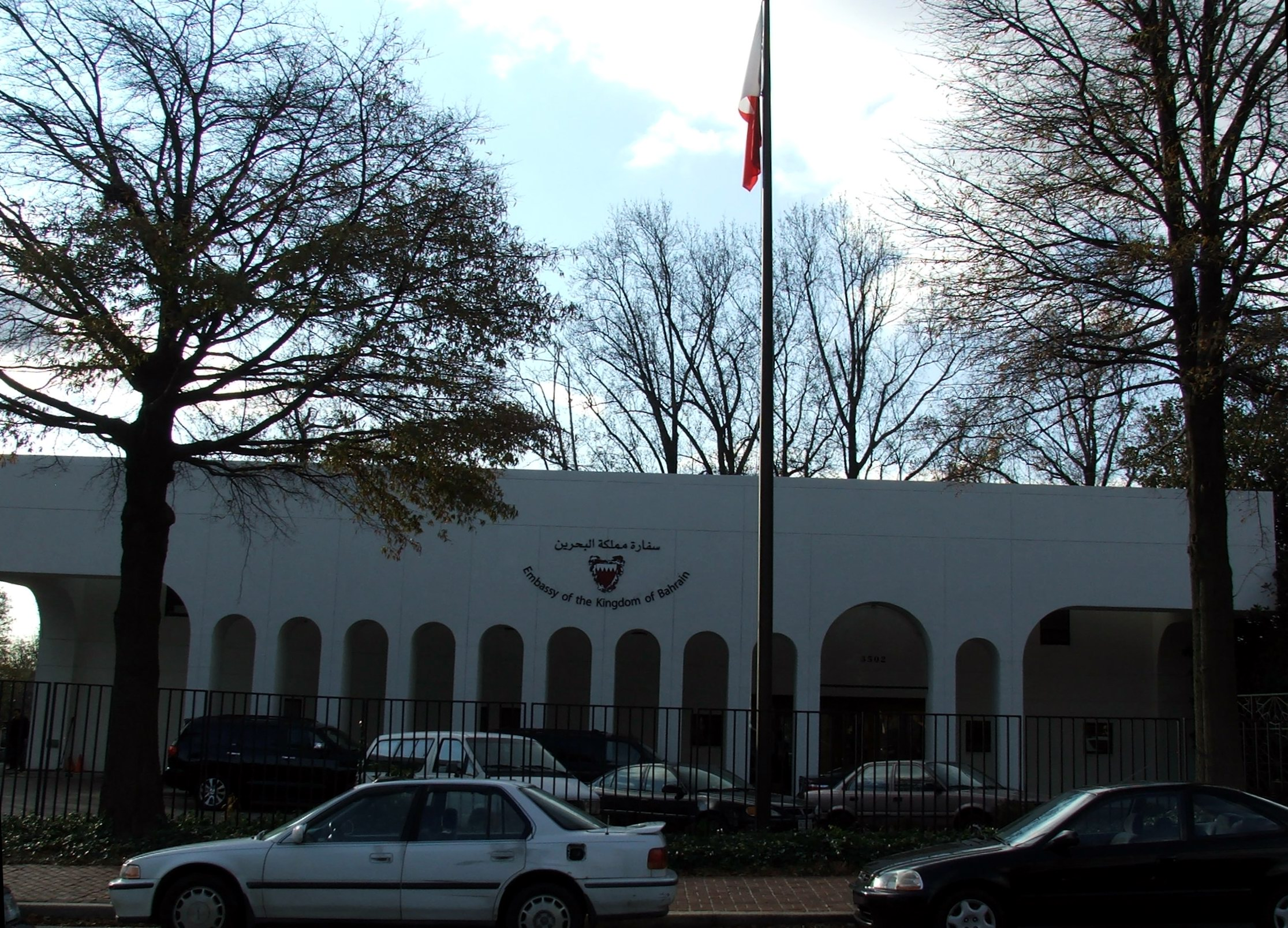 Embassy of the Kingdom of Bahrain in the United States, which is located at 3502 International Drive N.W. in Washington, D.C.